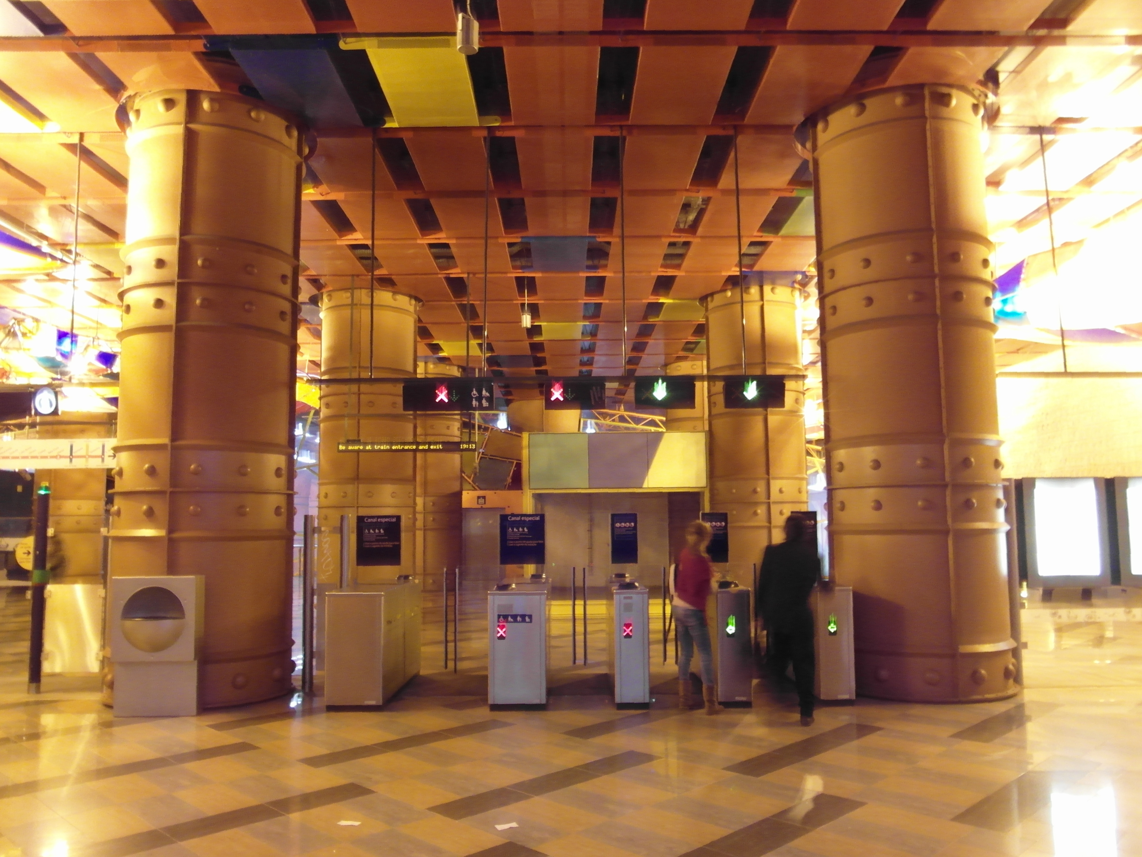 Olaias underground station, Lisboa, Portugal